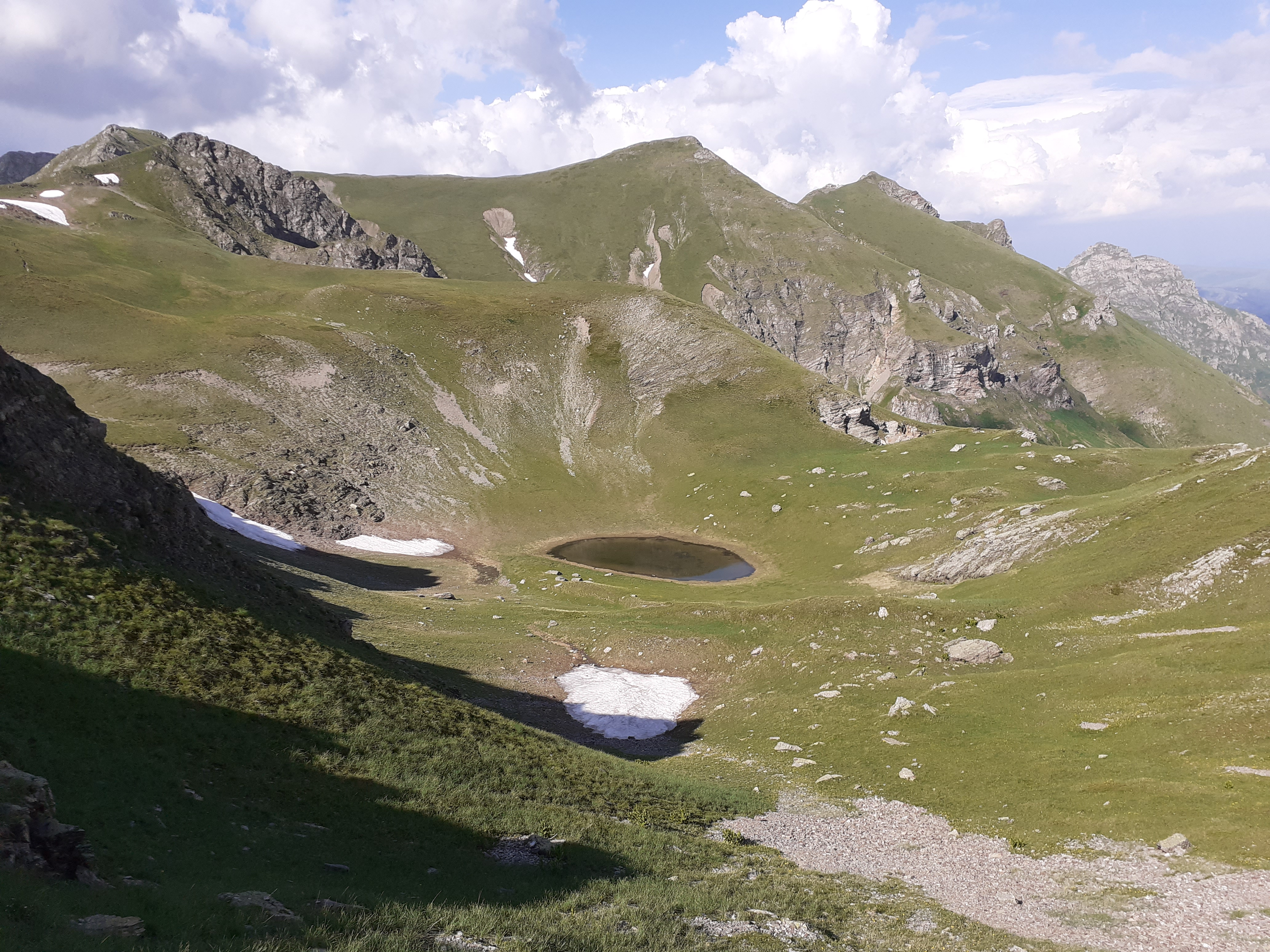 Izgrevno Ezero (Sunrise Lake/Lake of the Raising Sun) on Korab mountain, Macedonia